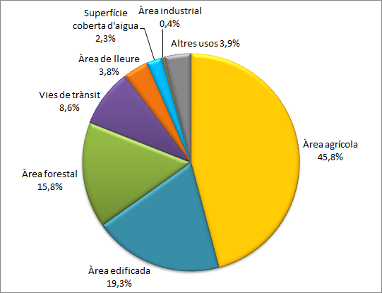 Structure of the urban area of Münster by its usage